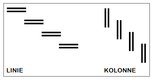 infantry echelon-formation